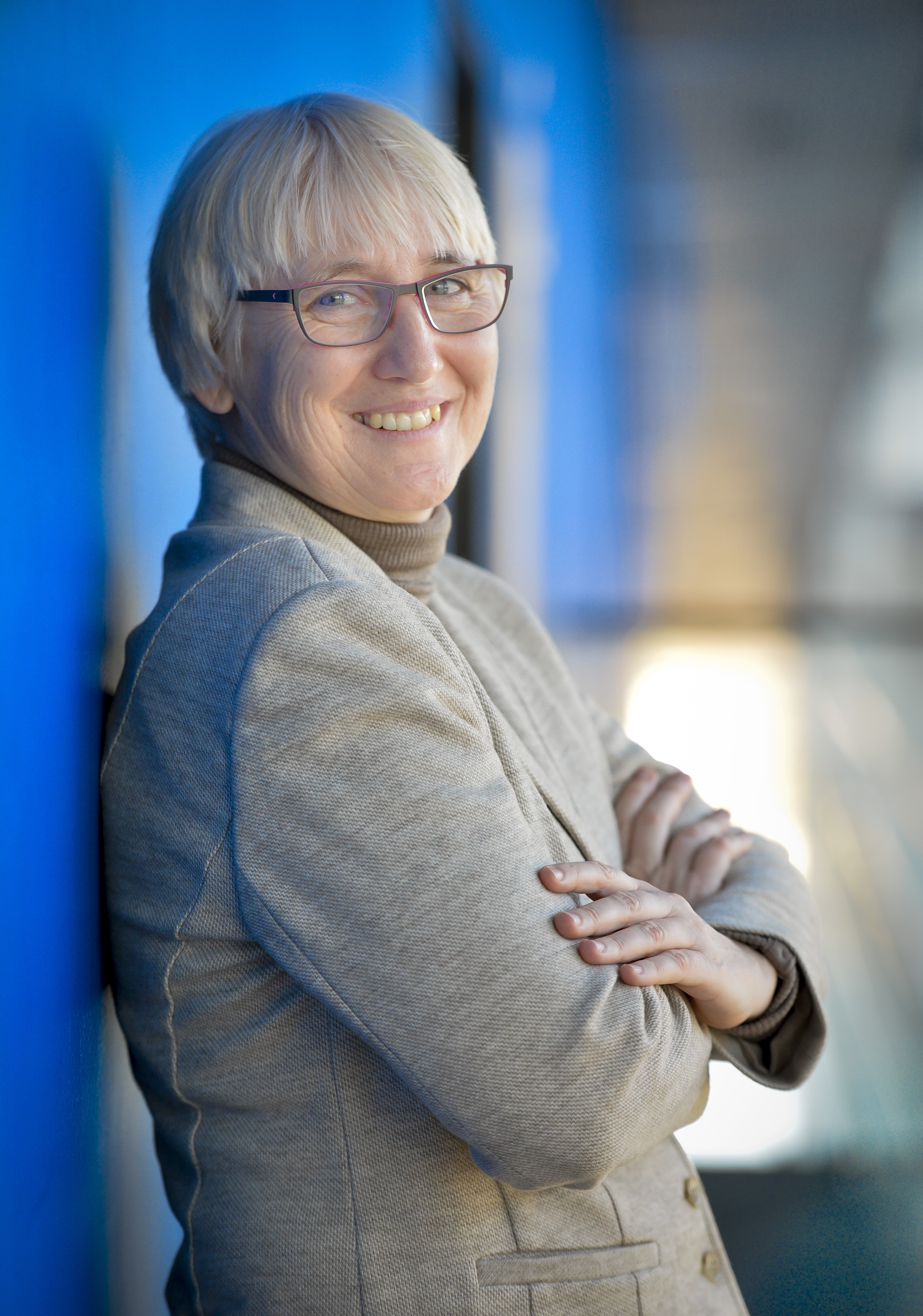 Olga SEHNALOVA in the EP in Strasbourg